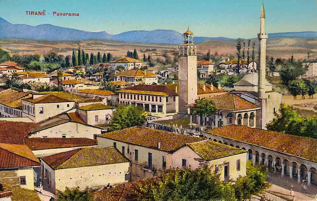 Center of Tirana, Albania, on an old postcard (around 1923)